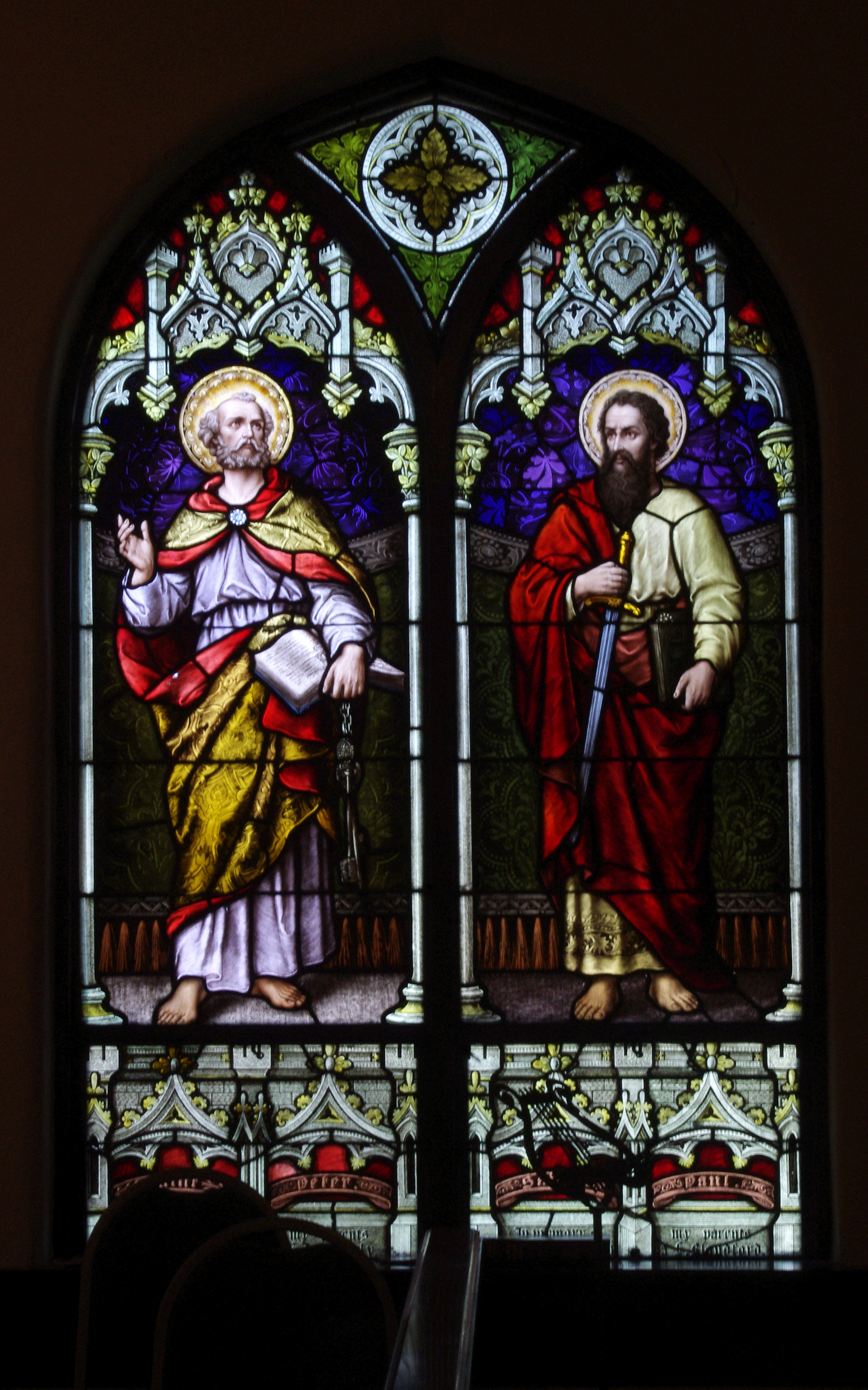 Saint Joseph's Catholic Church (Central City, Kentucky) - stained glass, St. Peter and St. Paul